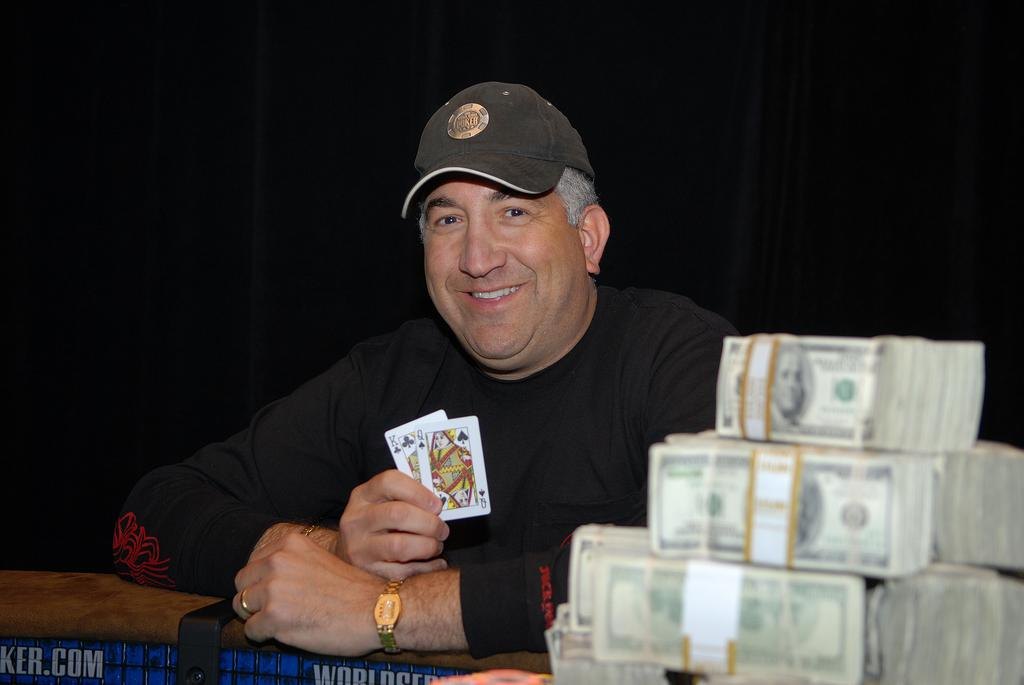 Don Baruch at the 2007 World Series of Poker.